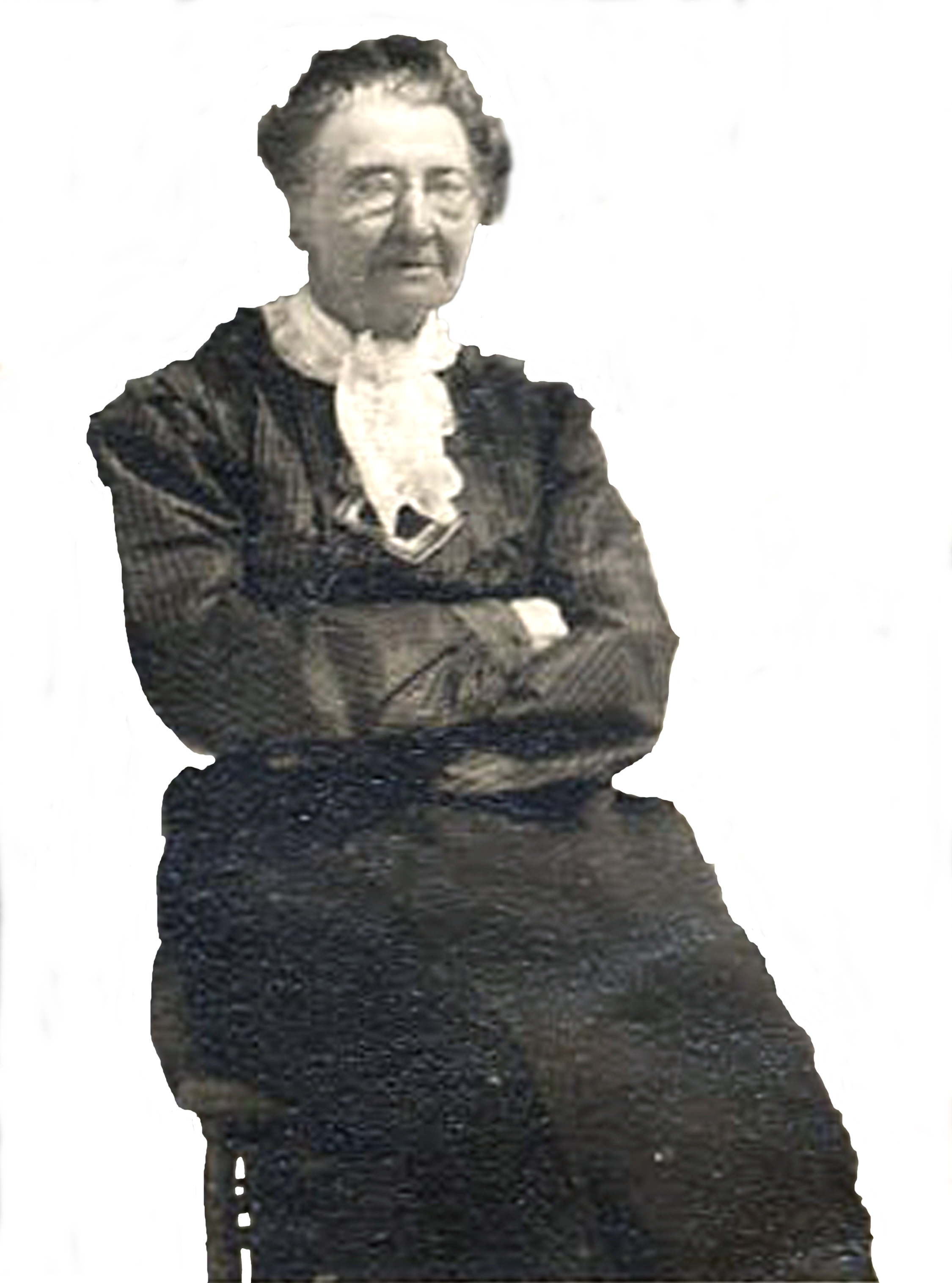 Caroline Weldon